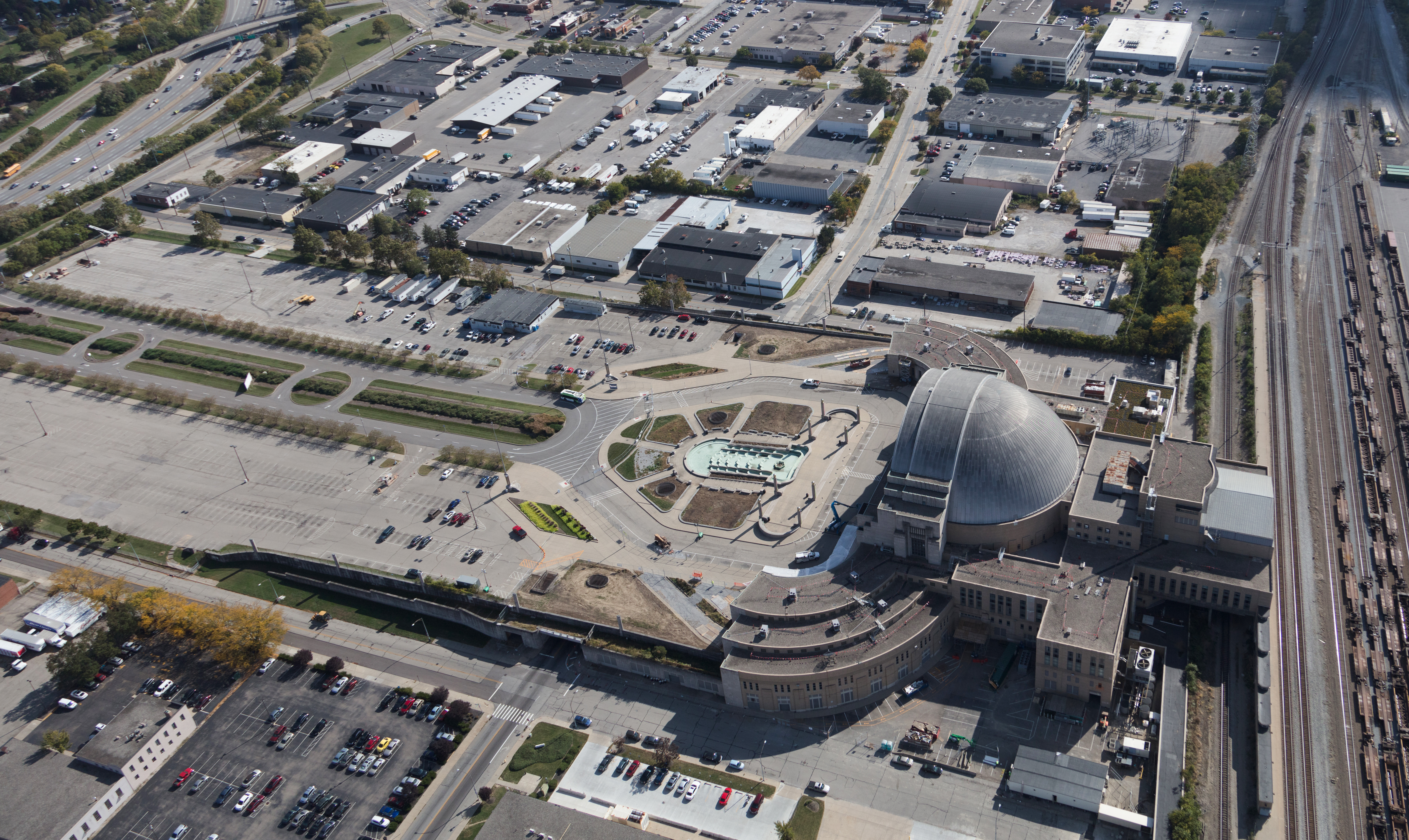 Aerial view of Union Terminal. Crop of File:CUT aerial 01.jpg